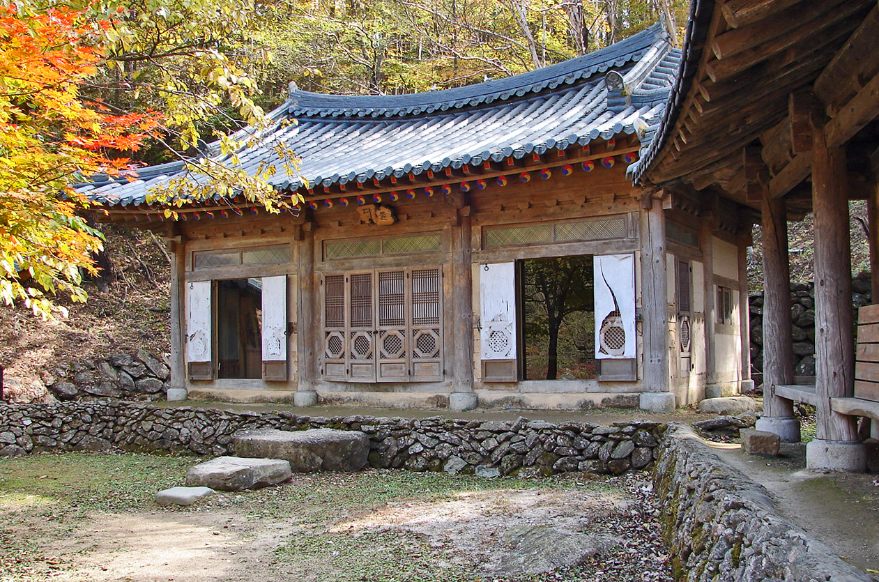 Out building on the main grounds of Samseonggung where the Sages's shrine hall is located. Samseonggung Shrine dedicated to the traditional worship of the three mythical creators of Korea: Hwanin, Hwanung, and Dangun.